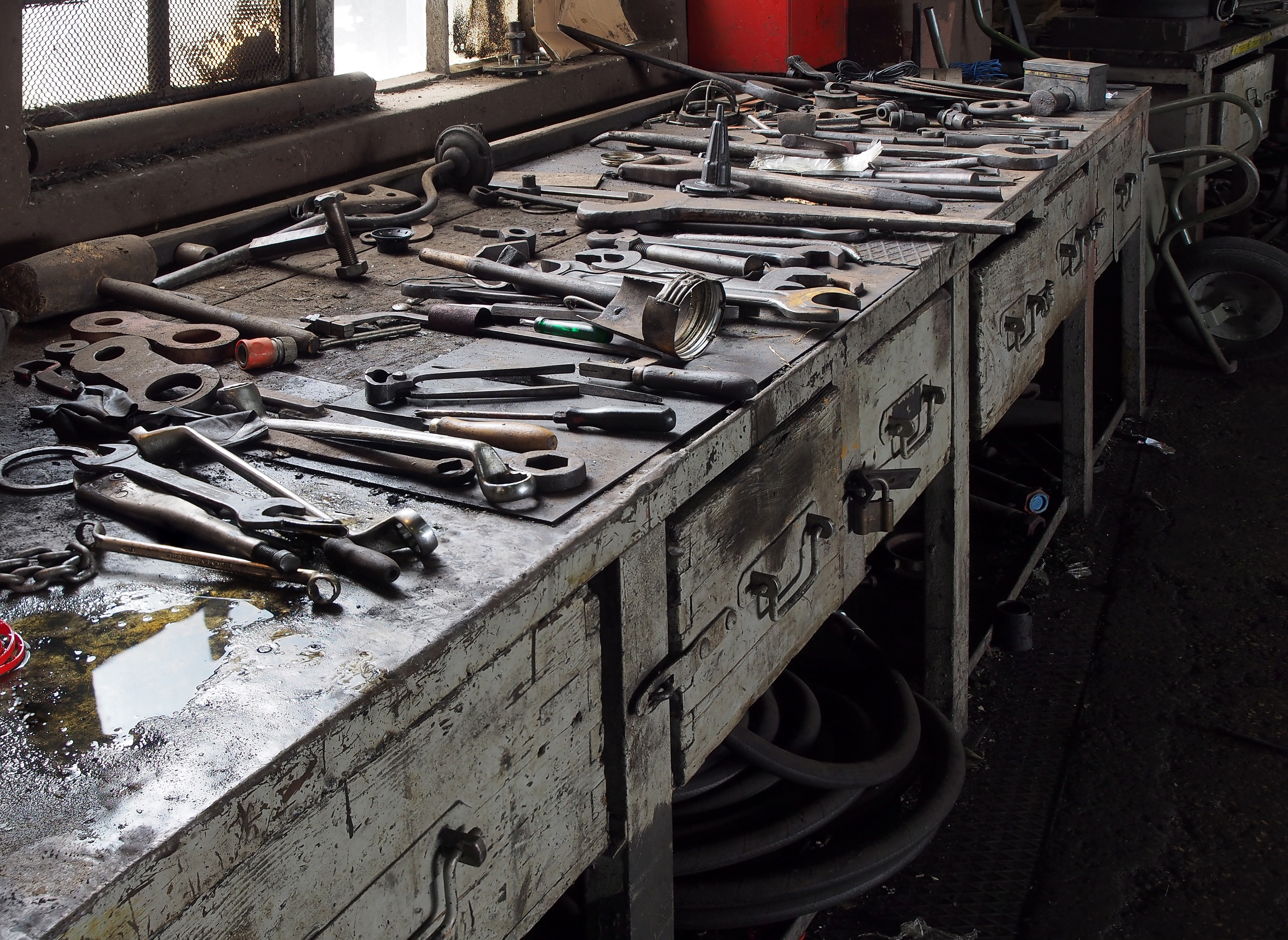 Railway workshop. Museum exhibition in Ljubljana, Slovenia. Focus stacking of 4 pictures.